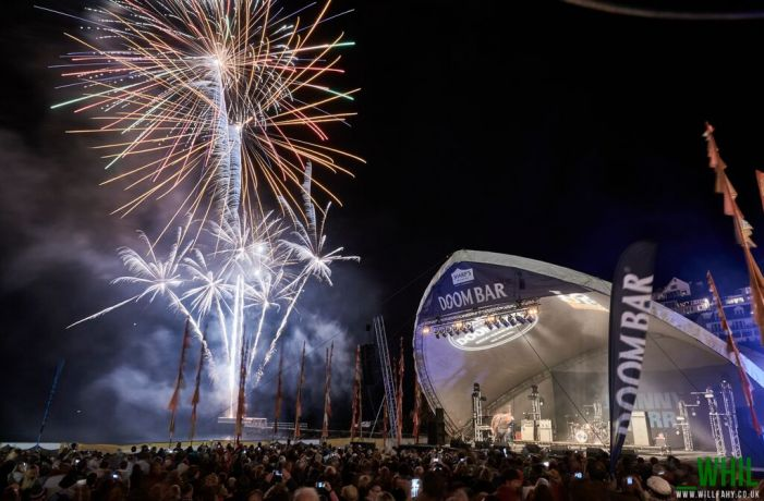 Fireworks next to the stage on the beach at Looe Music Festival 2015.